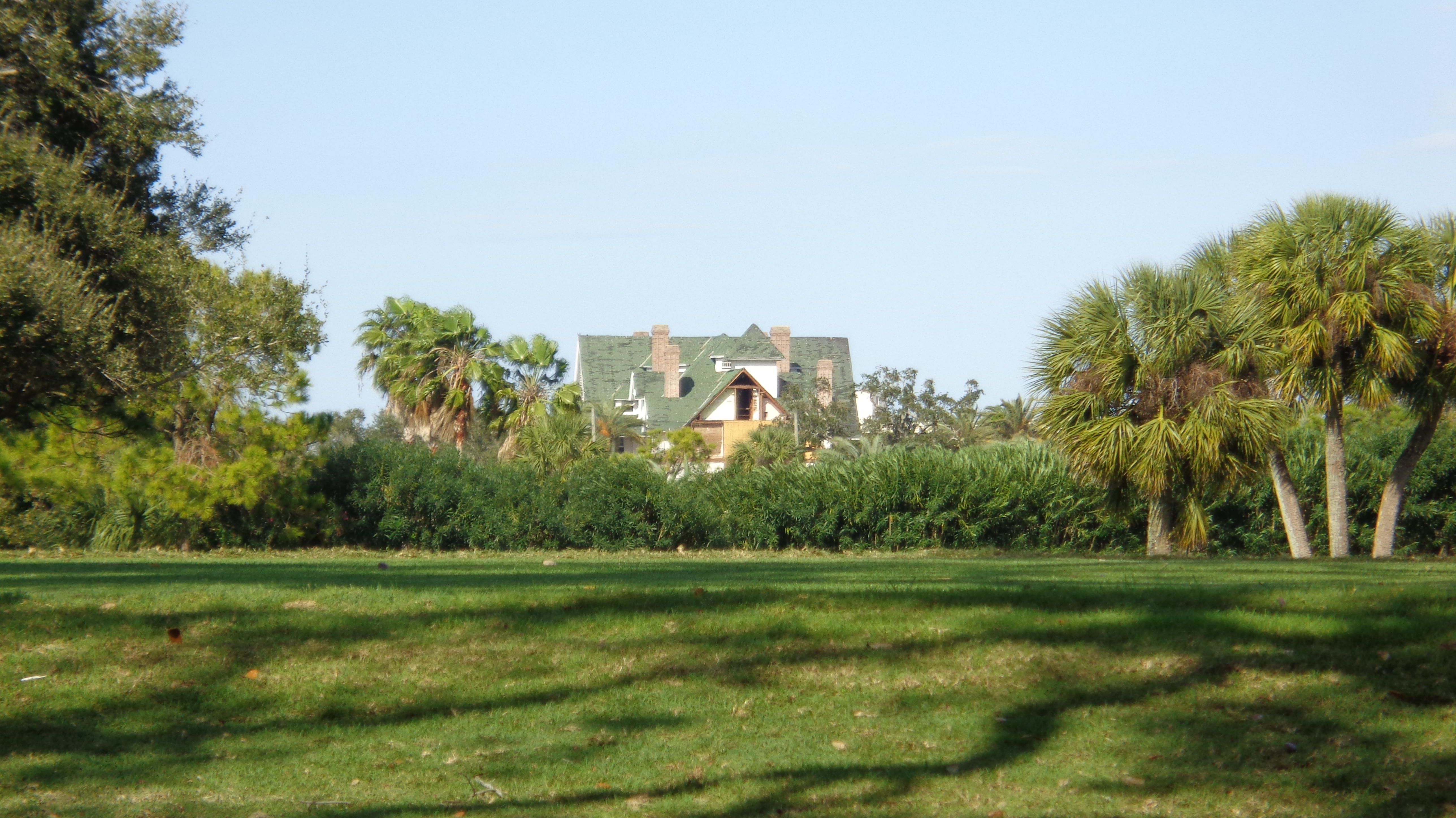 The preserved west wing of the Belleview-Biltmore Hotel in December 2016 after being moved to its new location on the former hotel property, as seen from Bayview Drive.